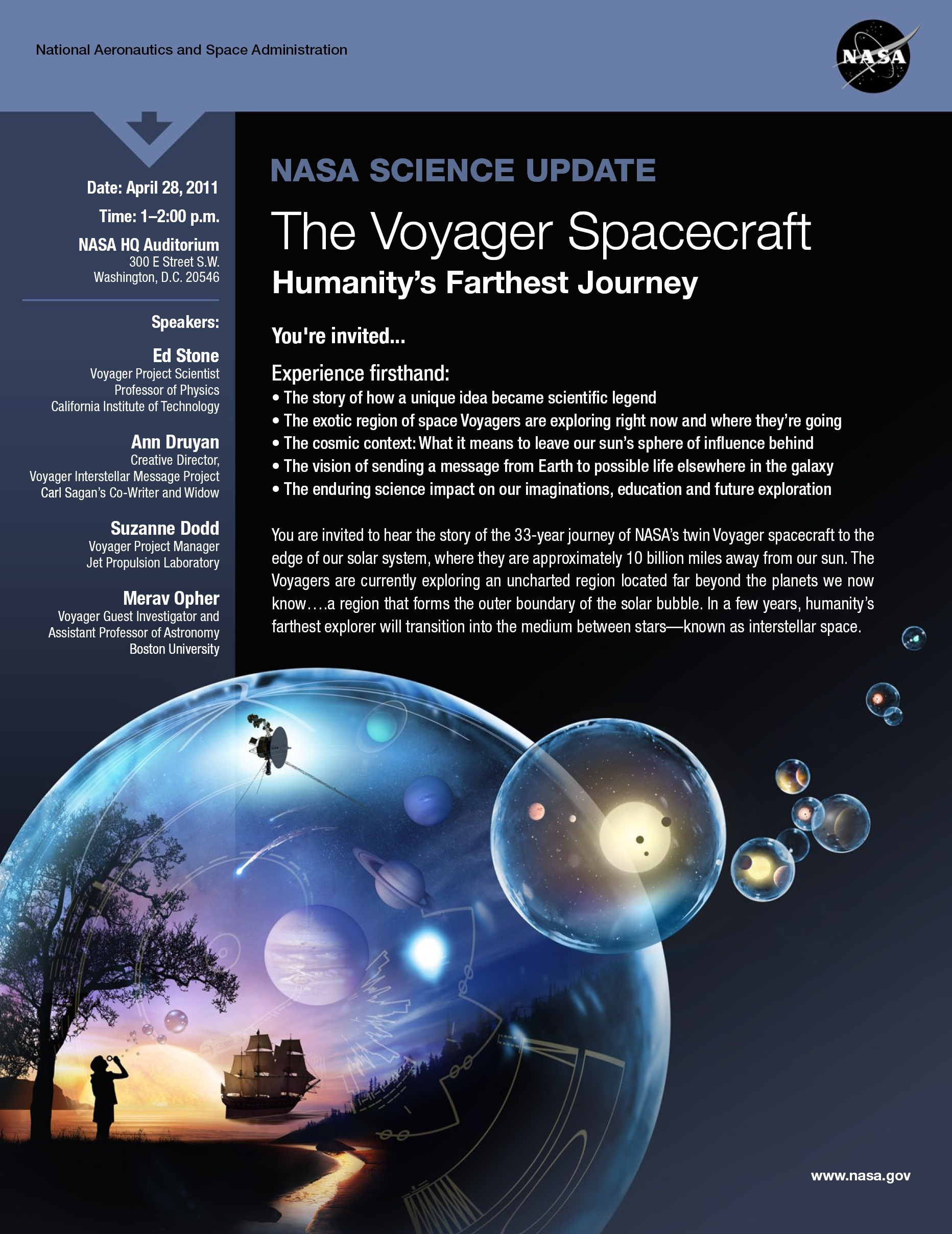 NASA Humanity's Farthest Journey program - Science Update sheet on the Voyager Spacecraft